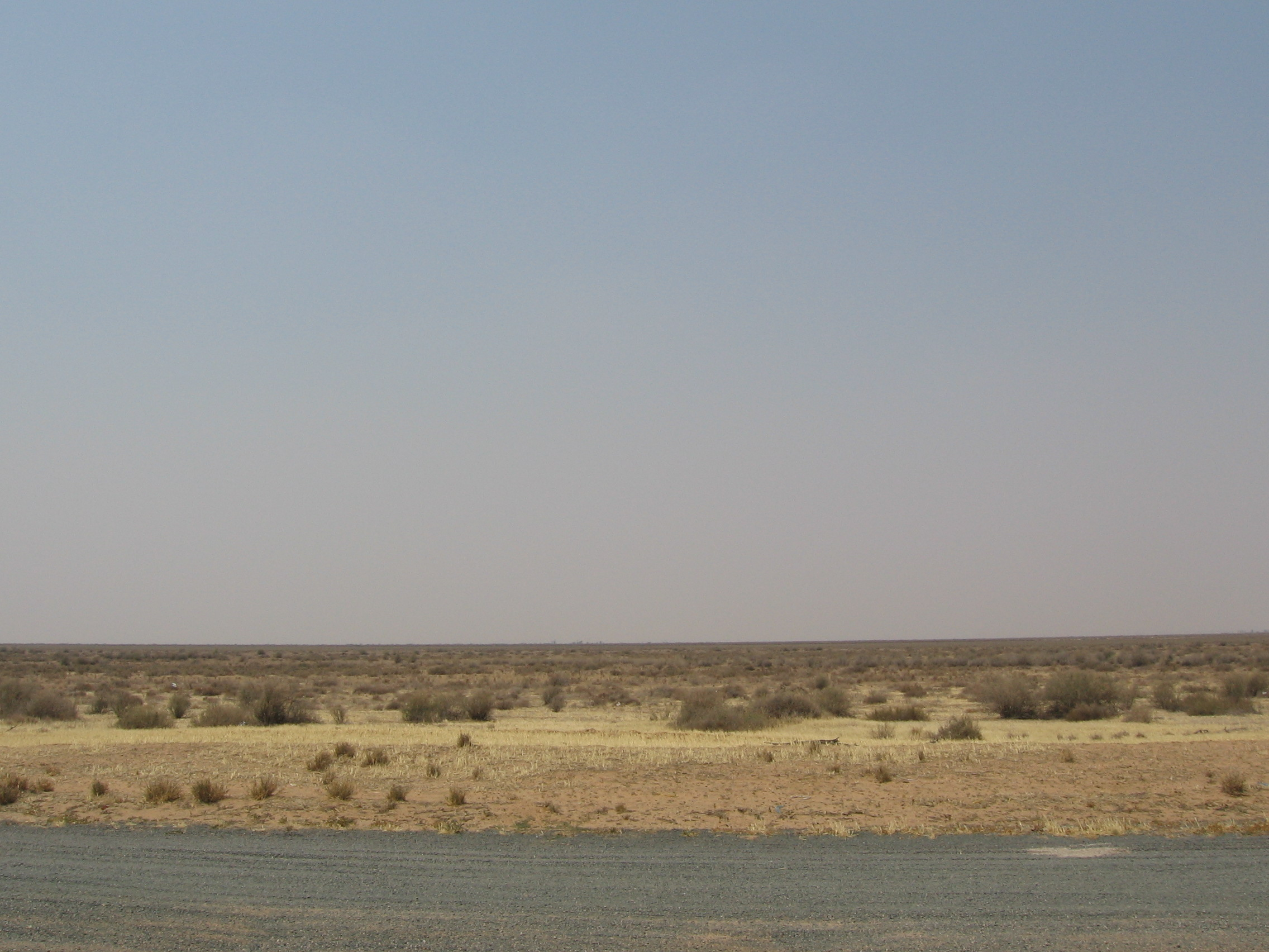 Old Man Plain, a Saltbush plain near Hay, New South Wales